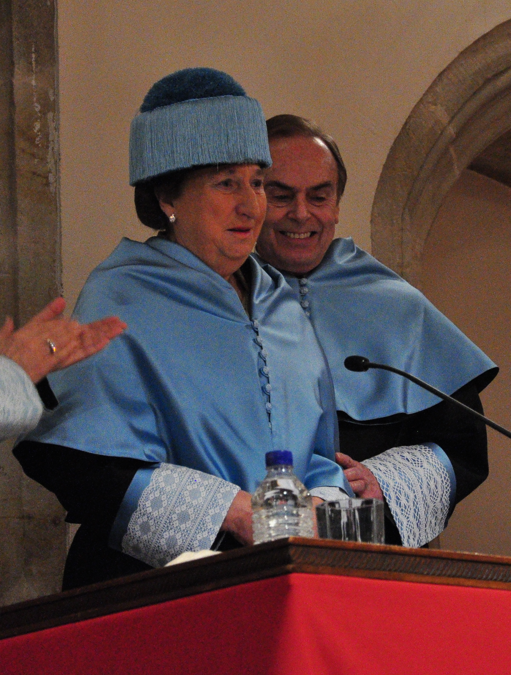 Her Royal Highness Infanta Margarita of Spain, Duchess of Soria, 2nd Duchess of Hernani, at "Honoris Causa Duques de Soria", University of Valladolid.